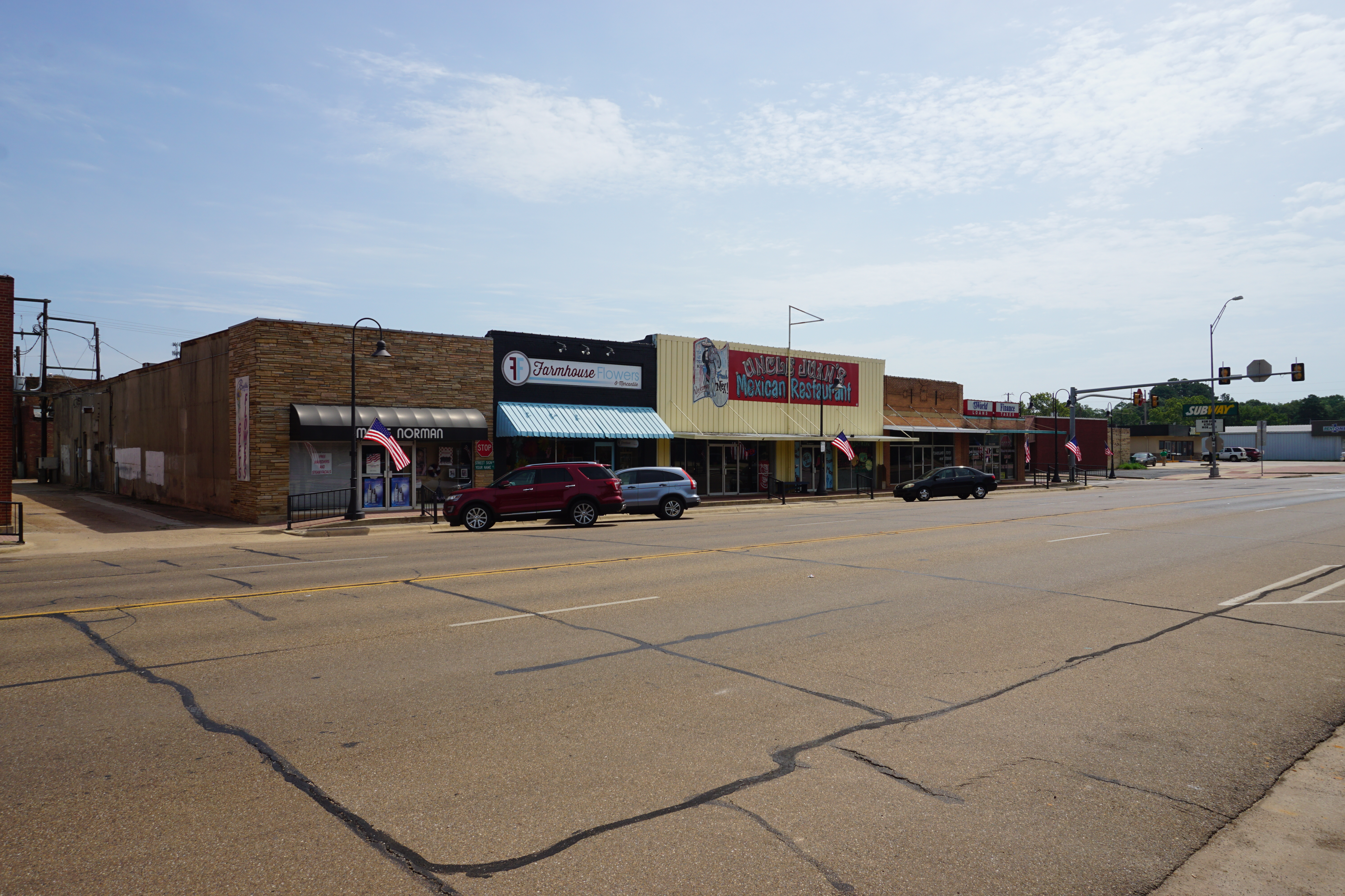 East Main Street in Atlanta, Texas (United States).